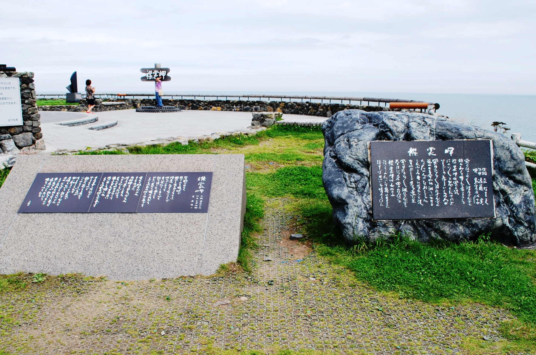 Song monument of Erimo misaki